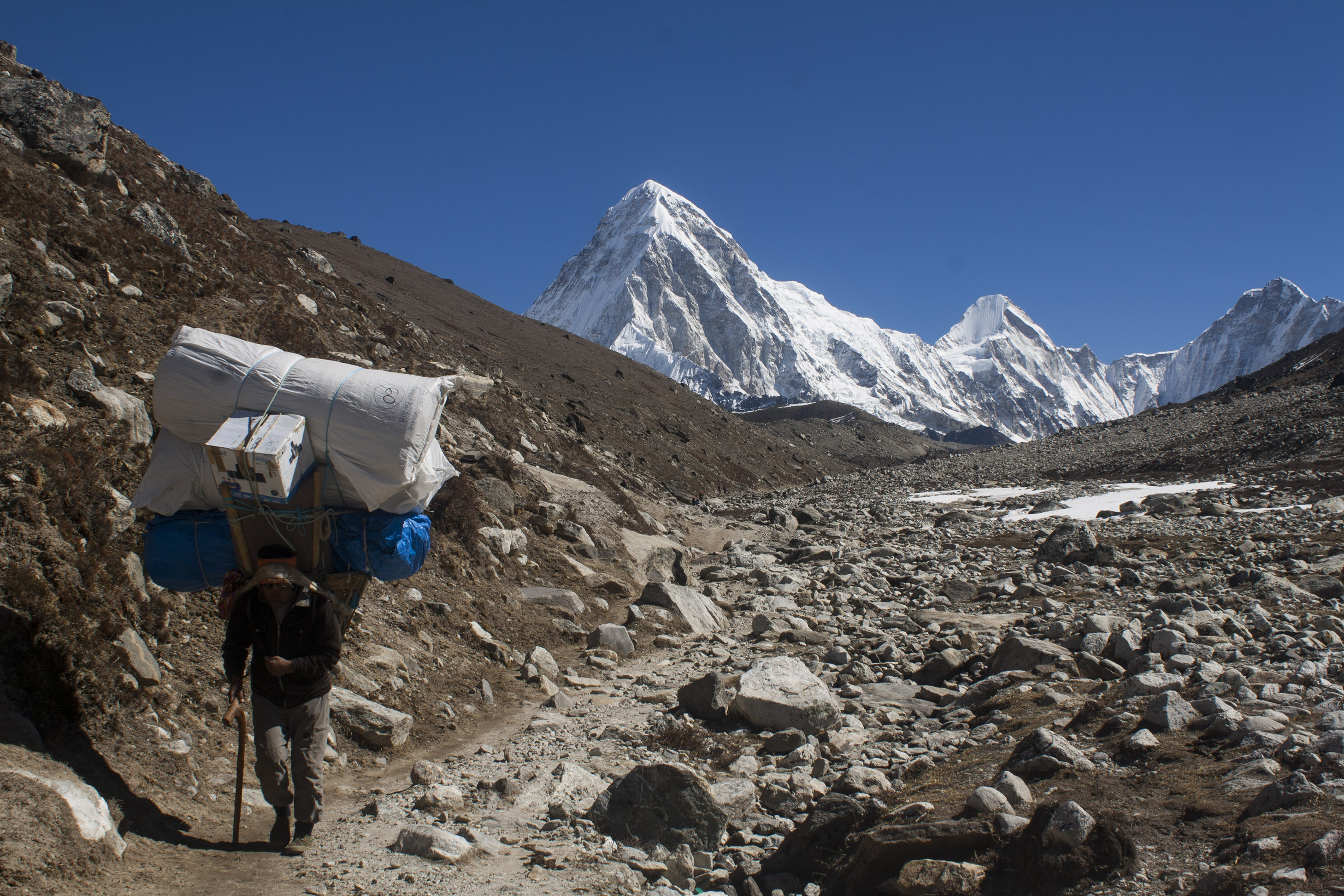 A Sherpa man hikes from Dughla towards Lobuche, with Taboche and Cholatse peaks visible in the background.